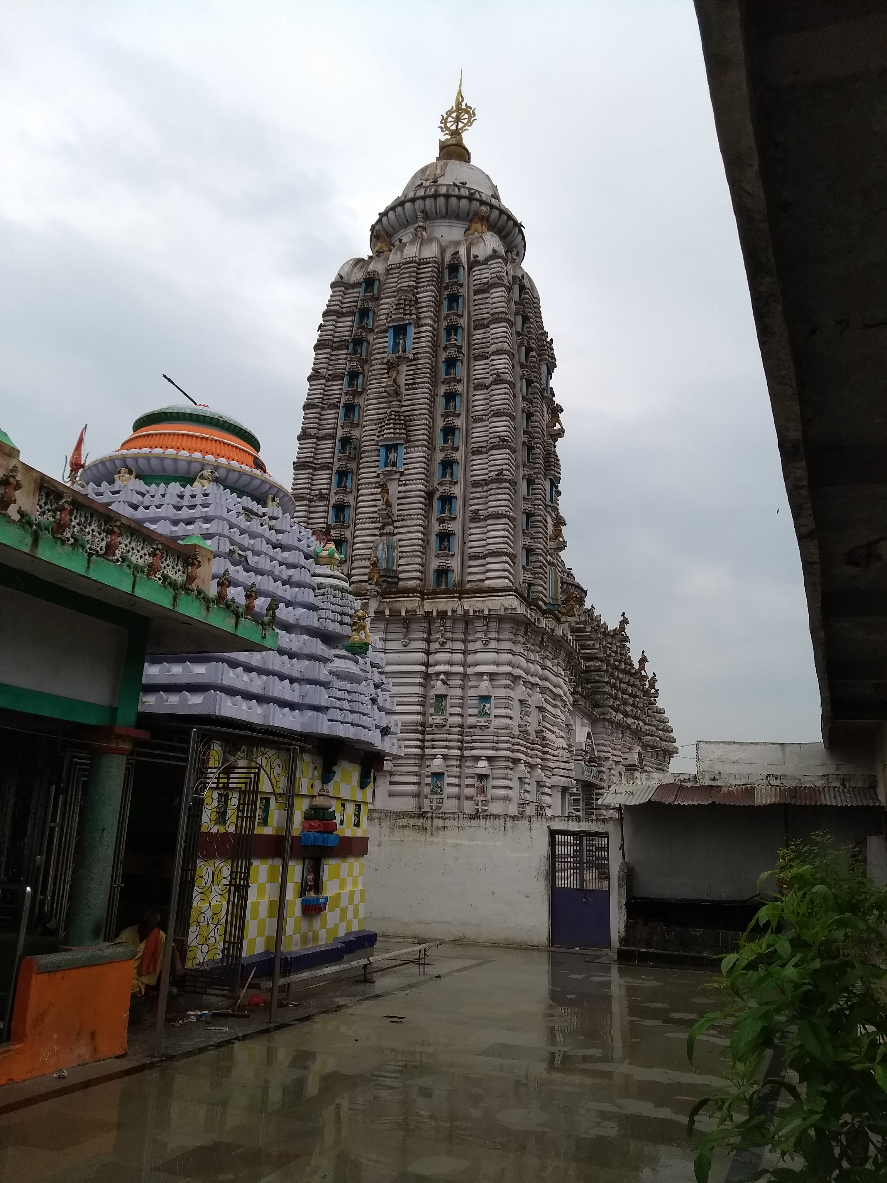 Siddhabhairavi temple, mantridi